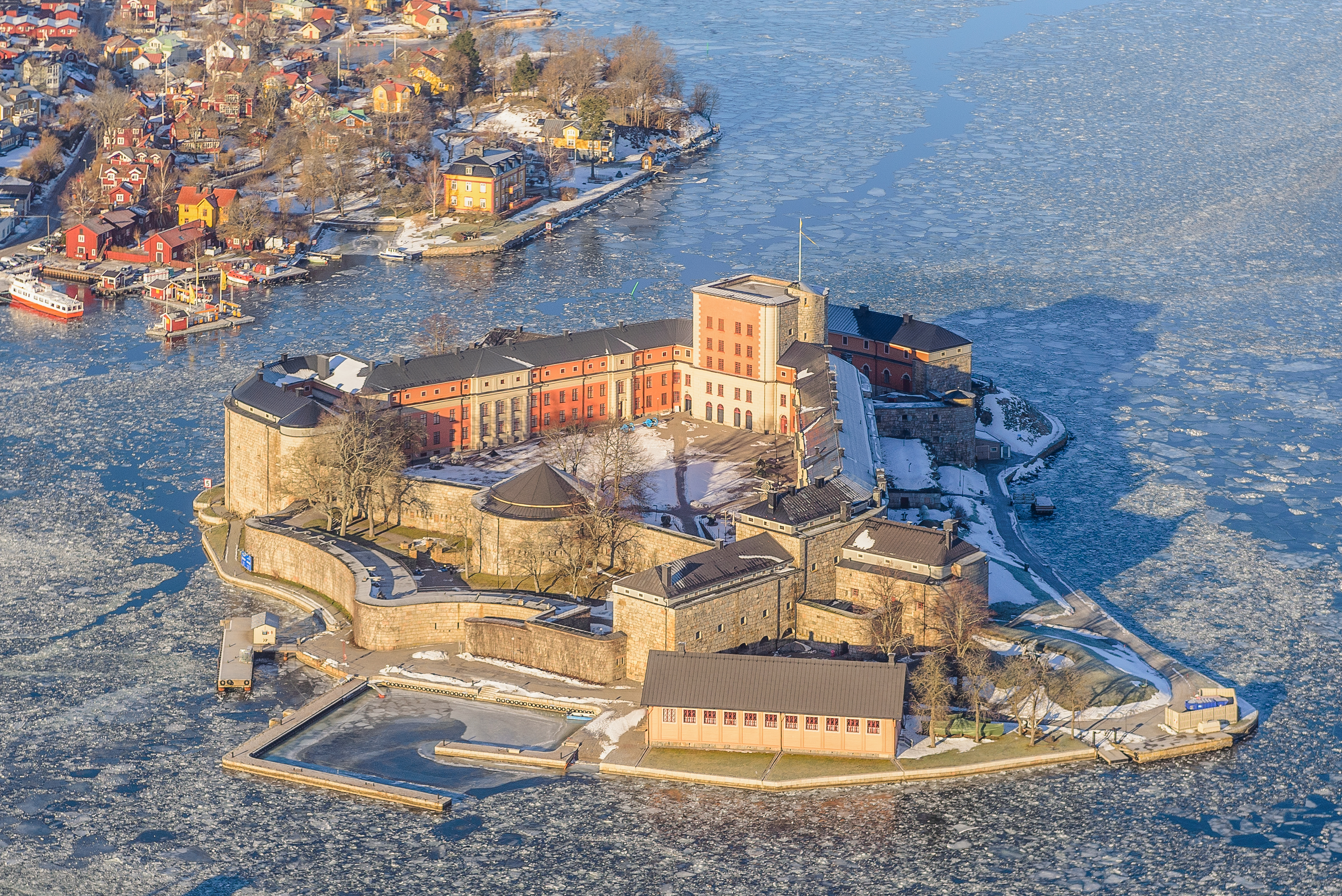 Vaxholm Fortress, Stockholm archipelago, Sweden. November 2013.